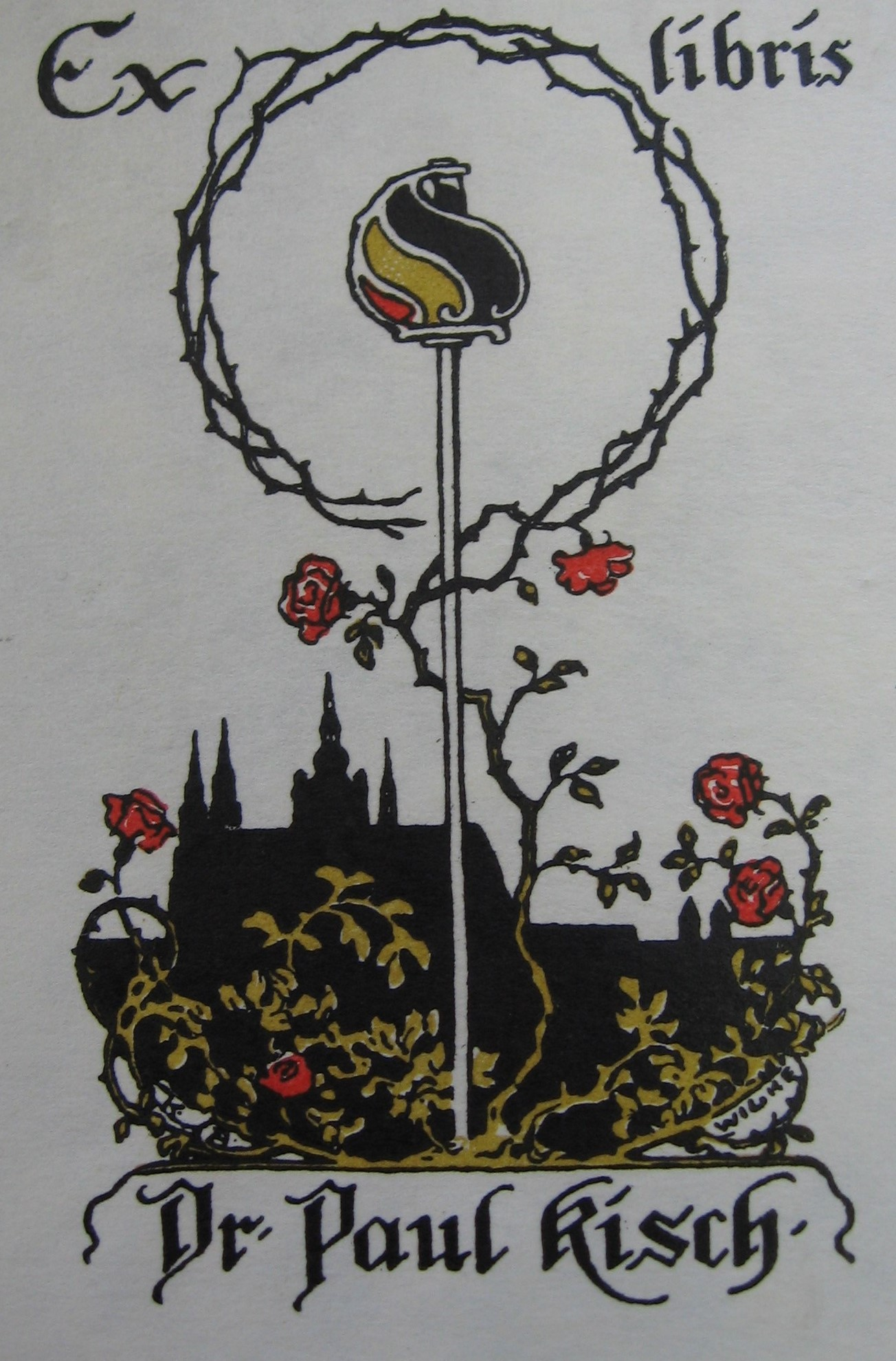 Paul Kisch, Czech-German author, ex libris